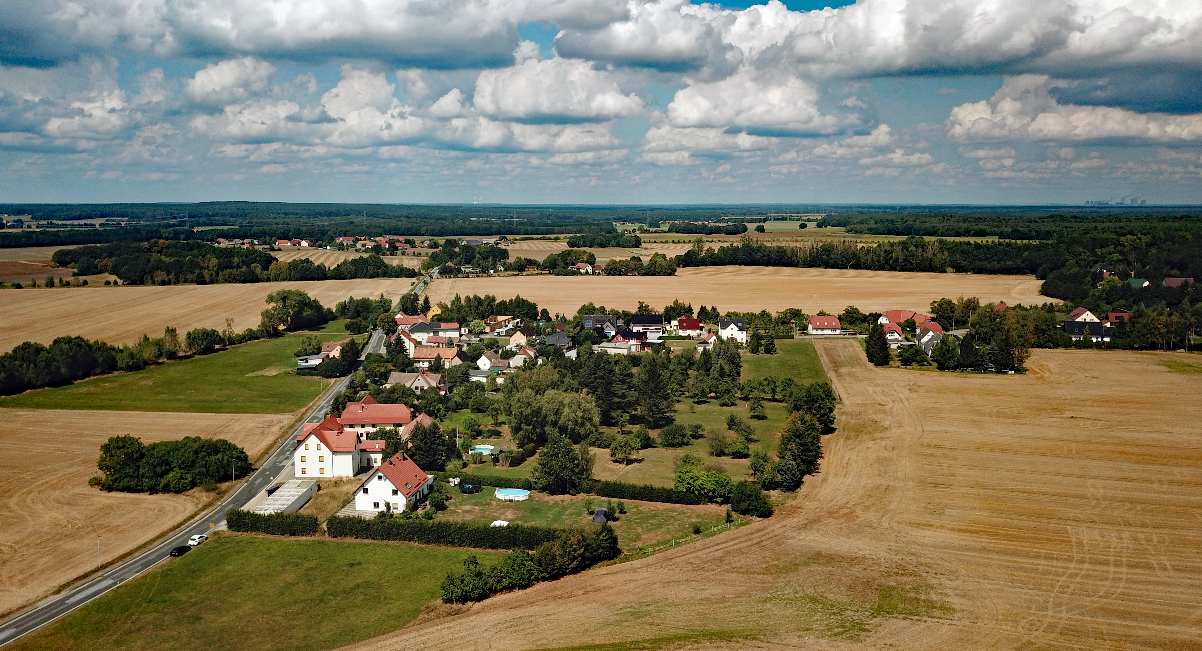 Merka (Radibor, Saxony, Germany) Hornjoserbsce: Powětrowy wobraz Měrkowa